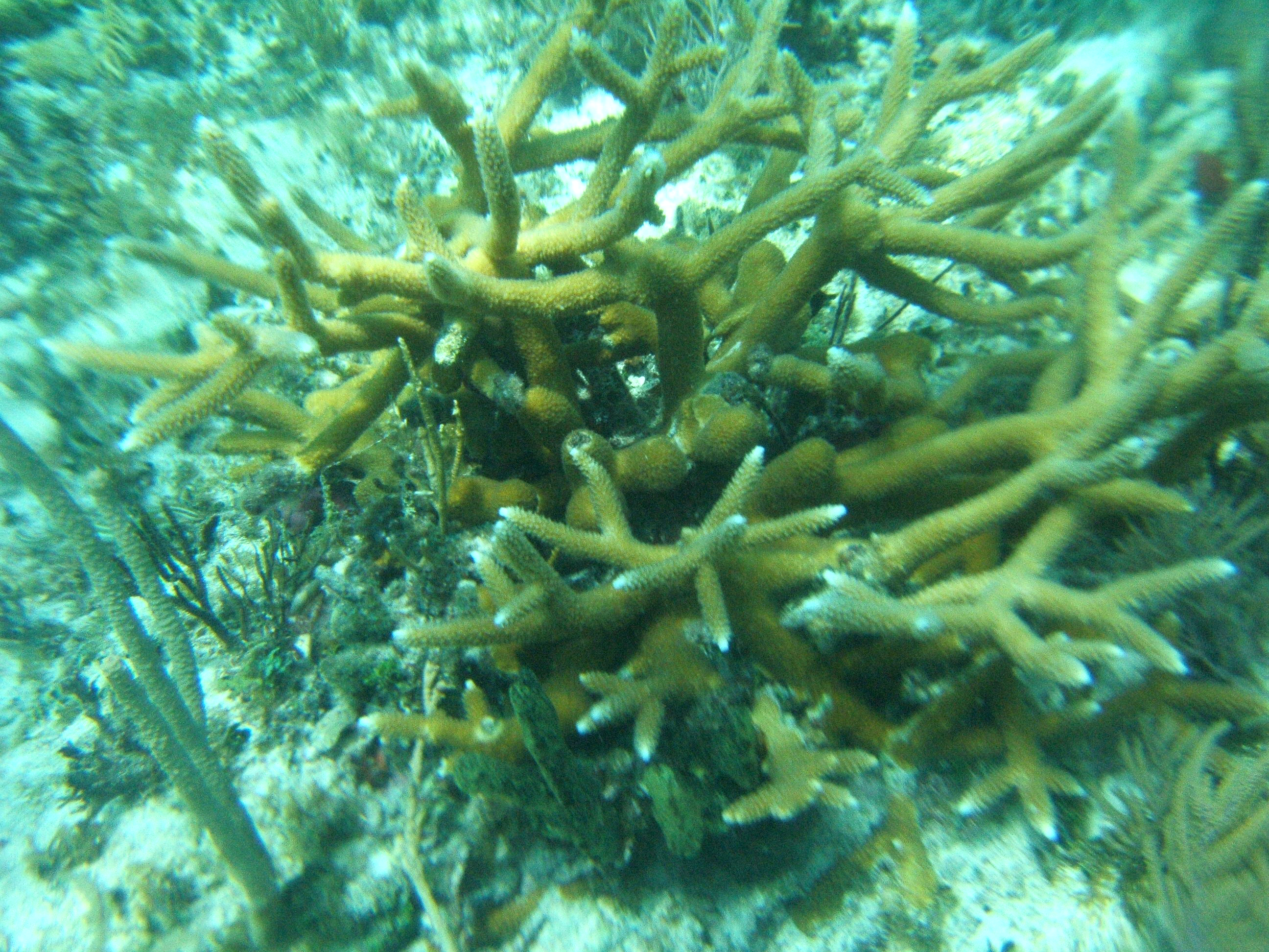 Staghorn coral (Acropora cervicornis)